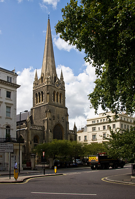 St James' parish church, Sussex Gardens, Paddington, London W2, seen from the east